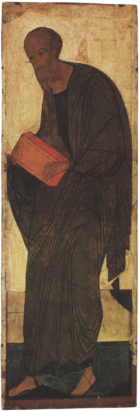 St. Paul Tempera on wood, 311x105x4, Russian Museum, Sankt Petersburg